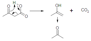 3-ketoacid decarboxylation mechanism